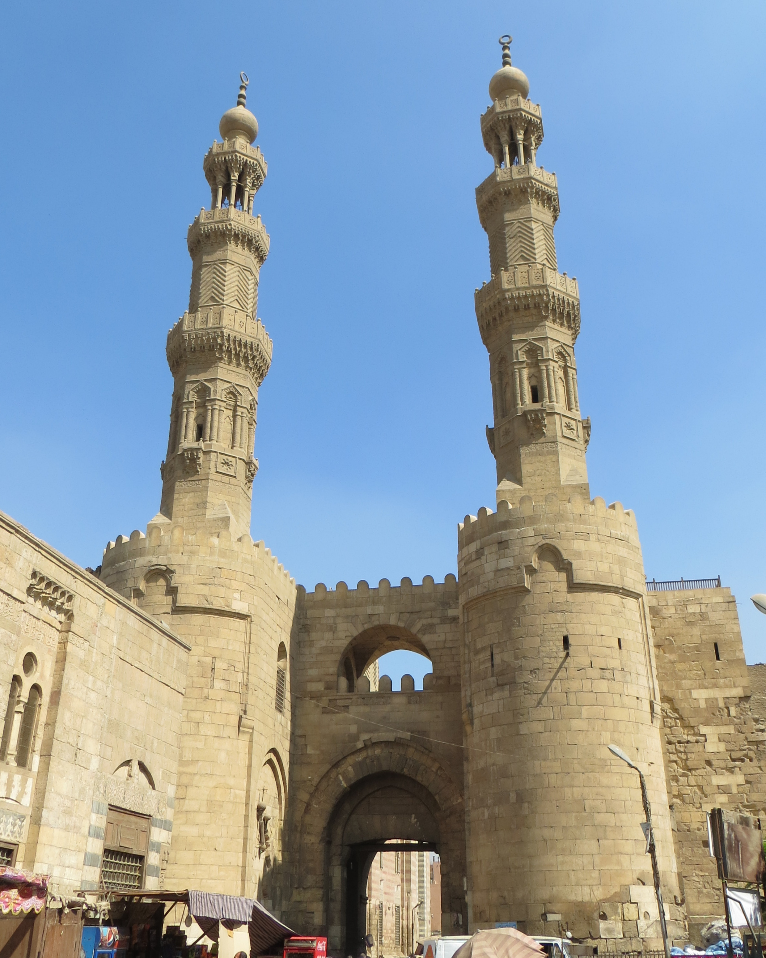 Bab Zuwayla, Cairo, 2012